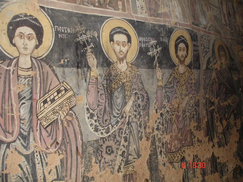 Elati Louziani St Paraskeva Fresco